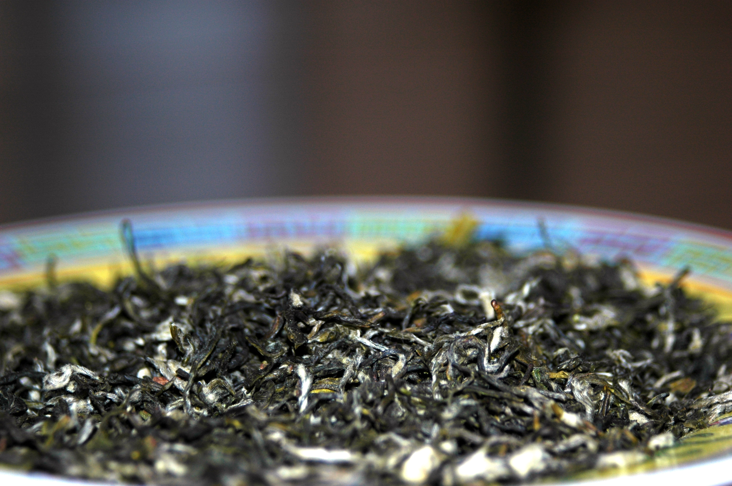 A plate of Bi Luo Chun tea, from Jiangsu Province in China.